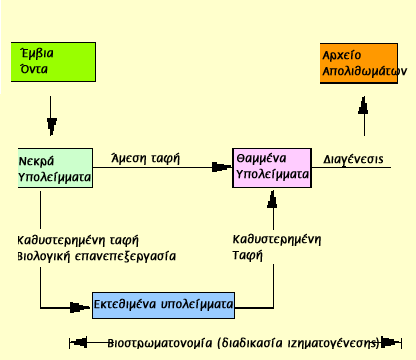 Taphonomy procedures